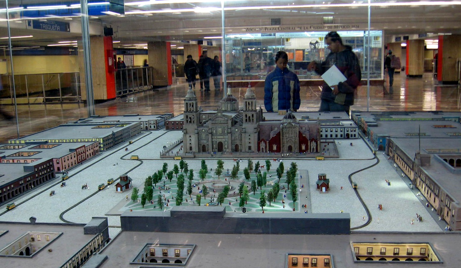 Model of Mexico City circa 1910 located in the Metro station Zocalo in Mexico City.